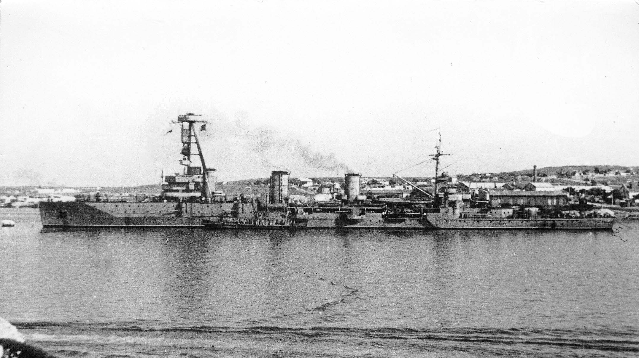 Soviet light cruiser Krasnyi Krym at Sevastopol', apparently in 1940s.